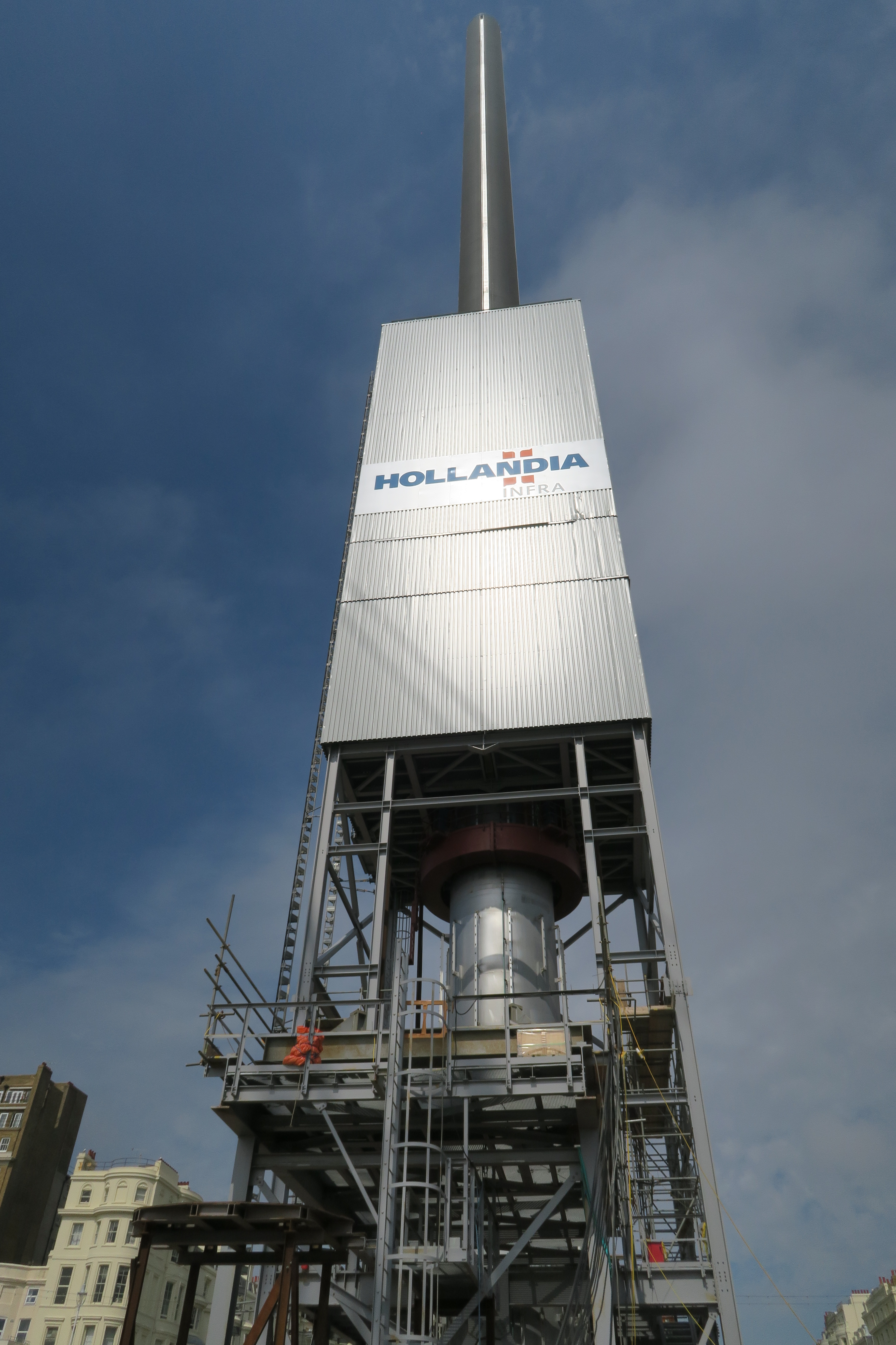 i360 Brighton under construction in 2015